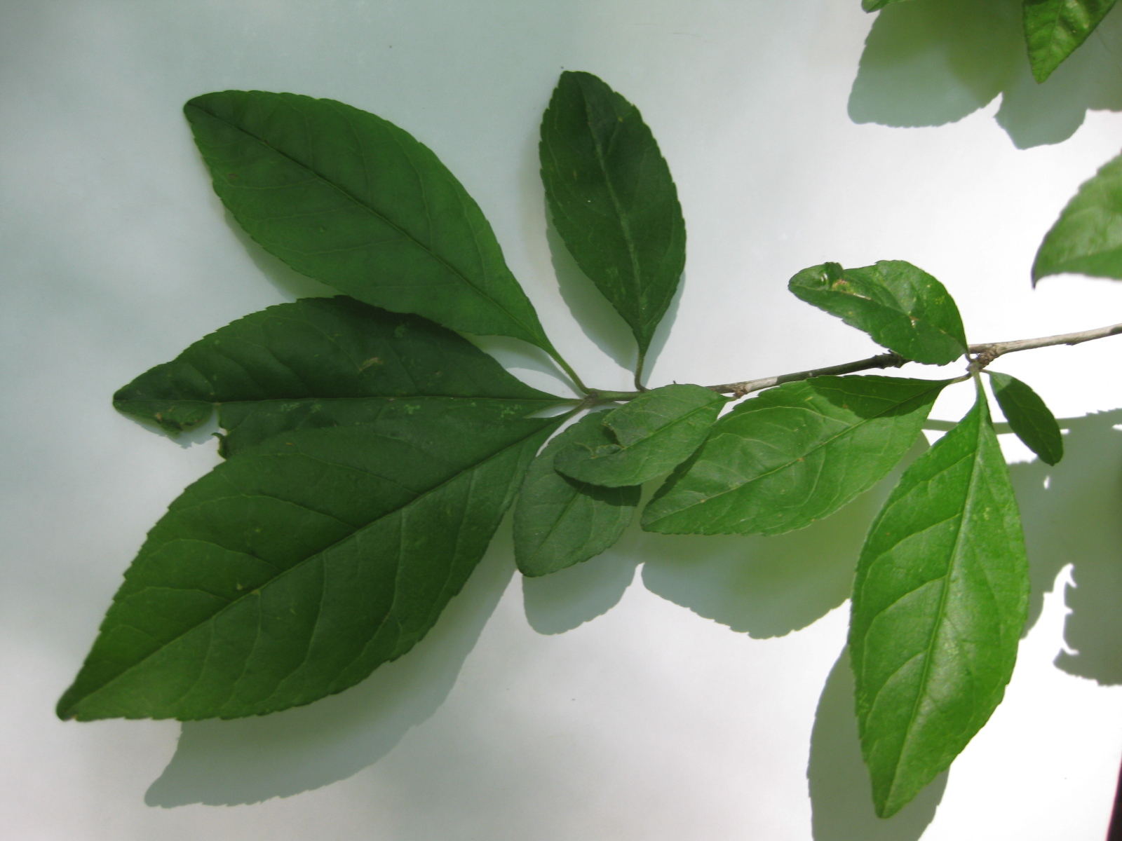 Ilex decidua Photographed May 18, 2009 near Duluth, Georgia